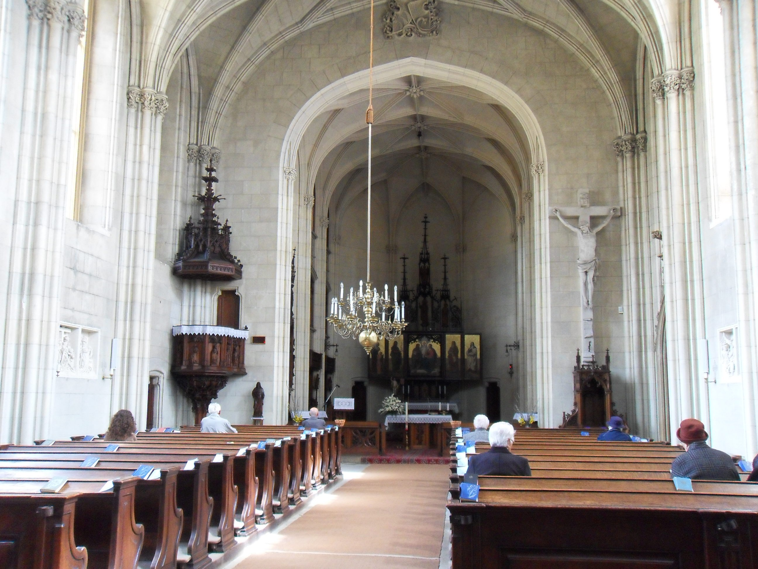 Interior of castle's chapel, Lednice, Břeclav district, Czech Republic